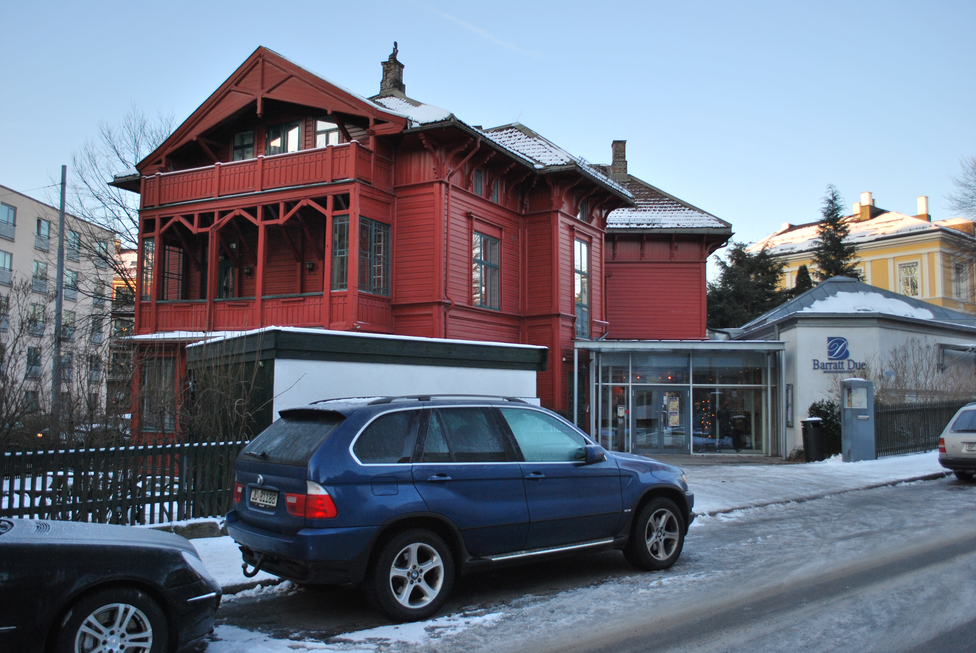 Barratt Due musikkinstitutt, Lyder Sagens gate 2, Fagerborg, Oslo